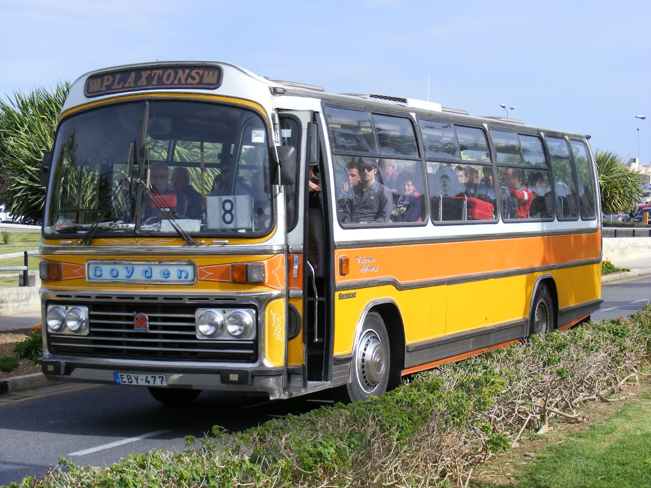 A very smart Plaxton Supreme (reg. EBY-477) bodied Bedford delivering passengers to Malta International Airport.